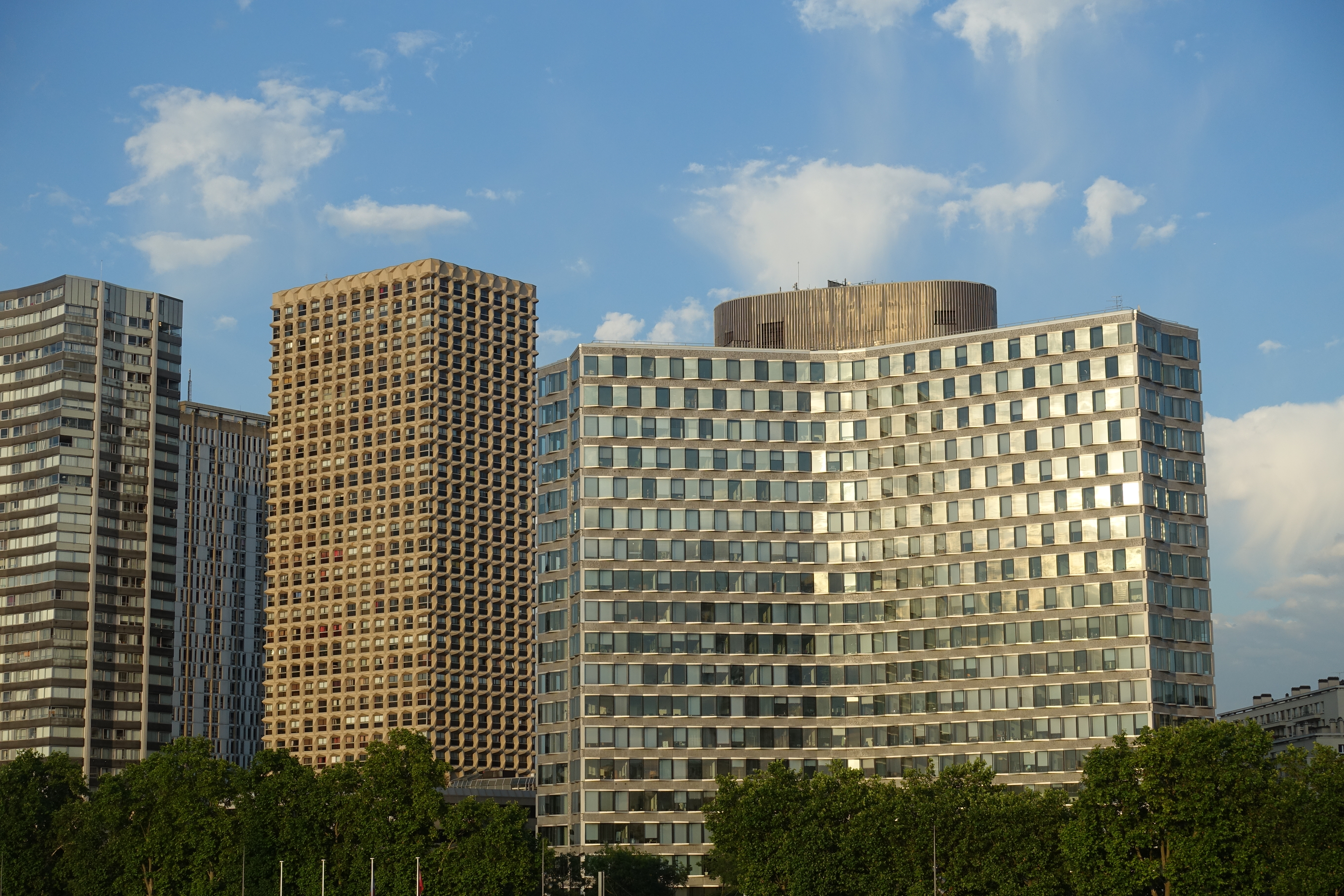 CSA @ Paris